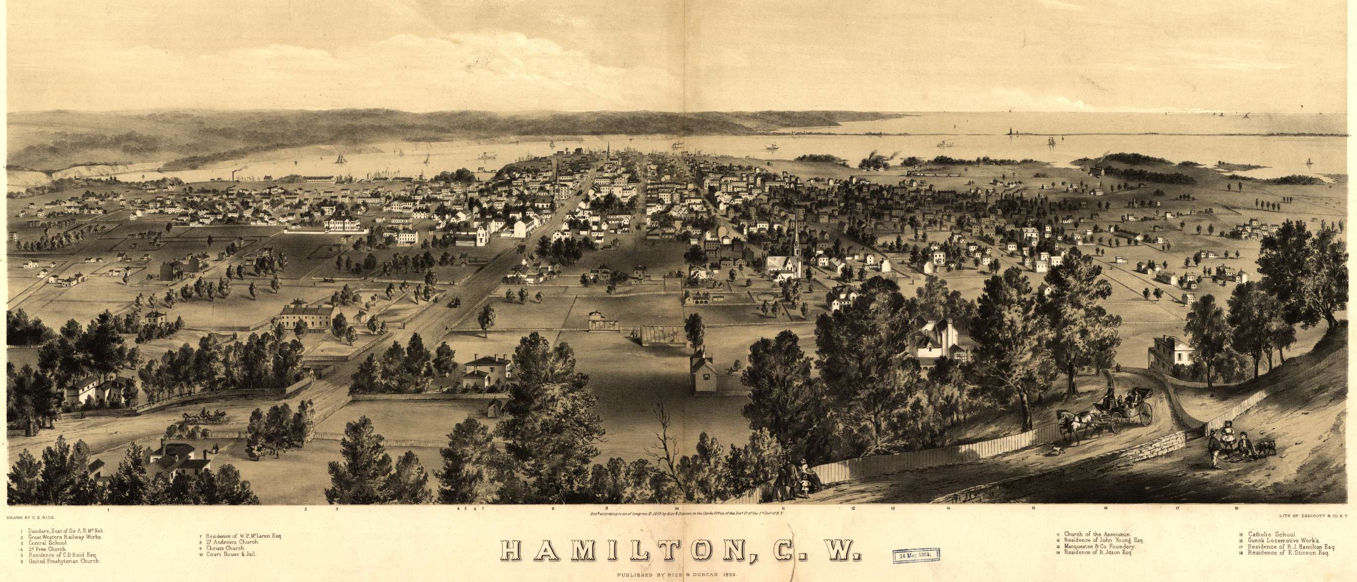 Hamilton. County Wentworth. Drawn. by C. S. Rice. Published by Rice & Duncan